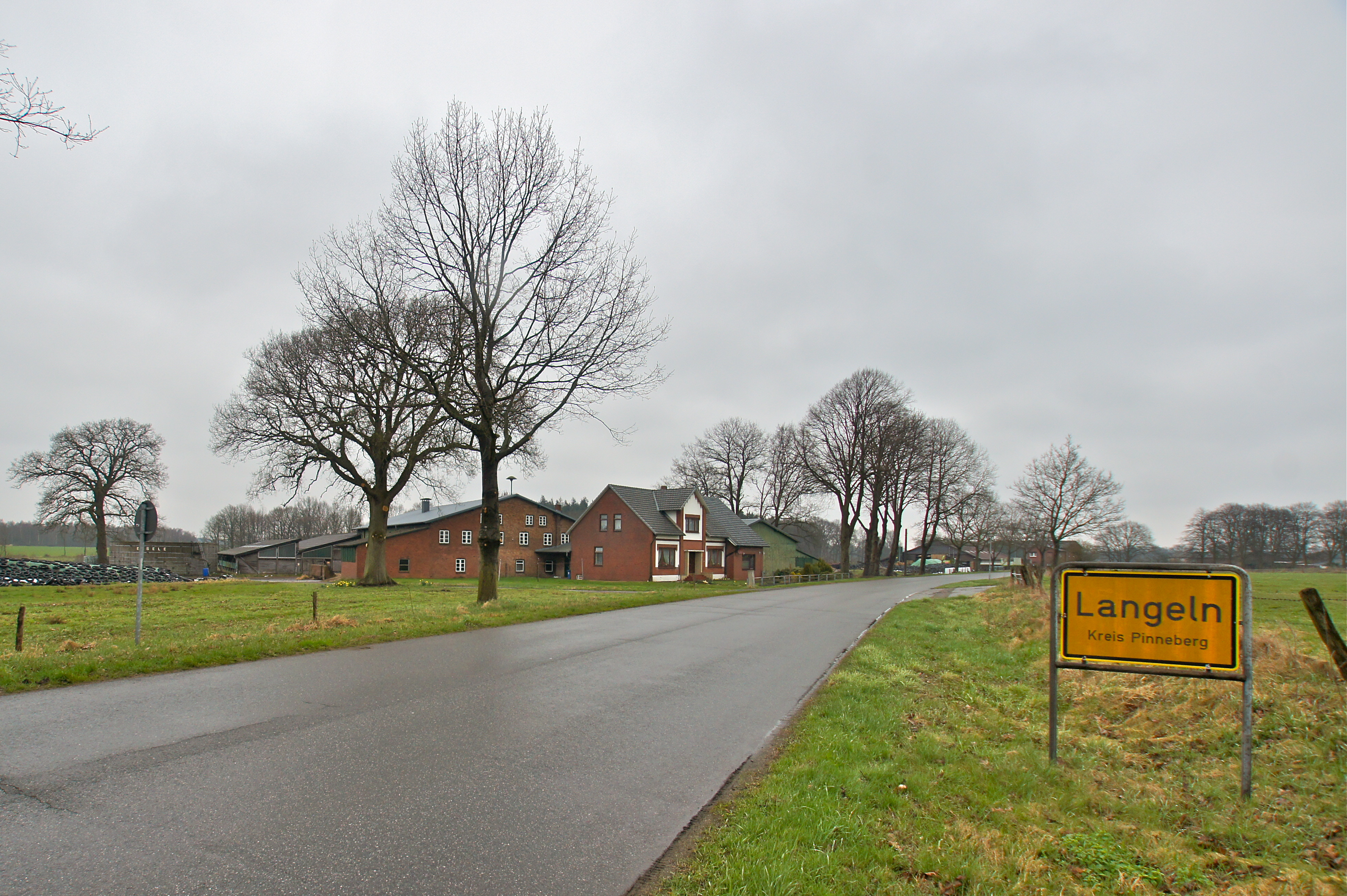 Langeln, Germany: Farm and name plate at the entrance of the town at the L75